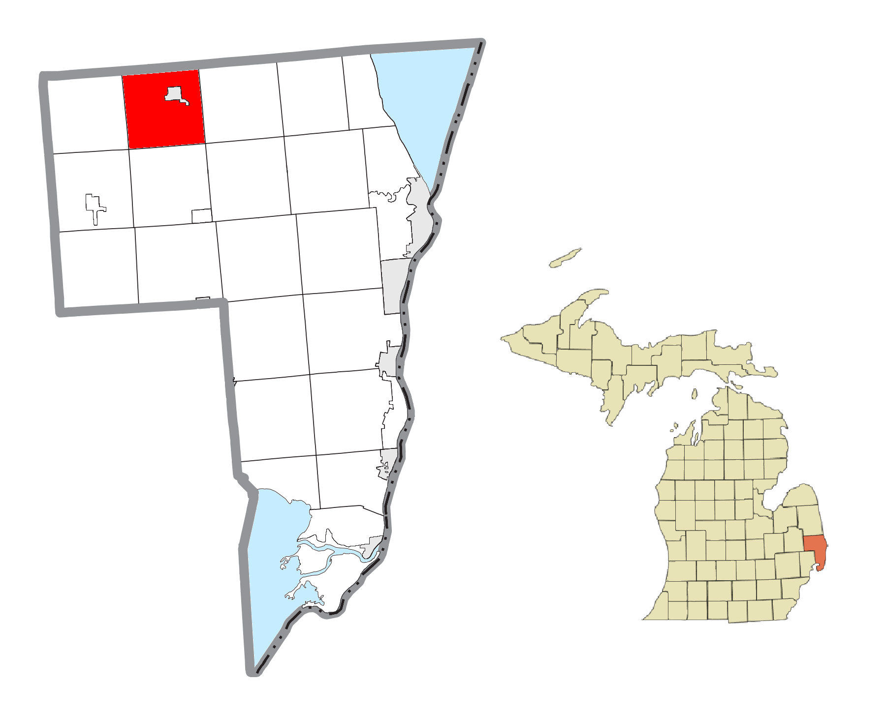 Brockway Township, MI